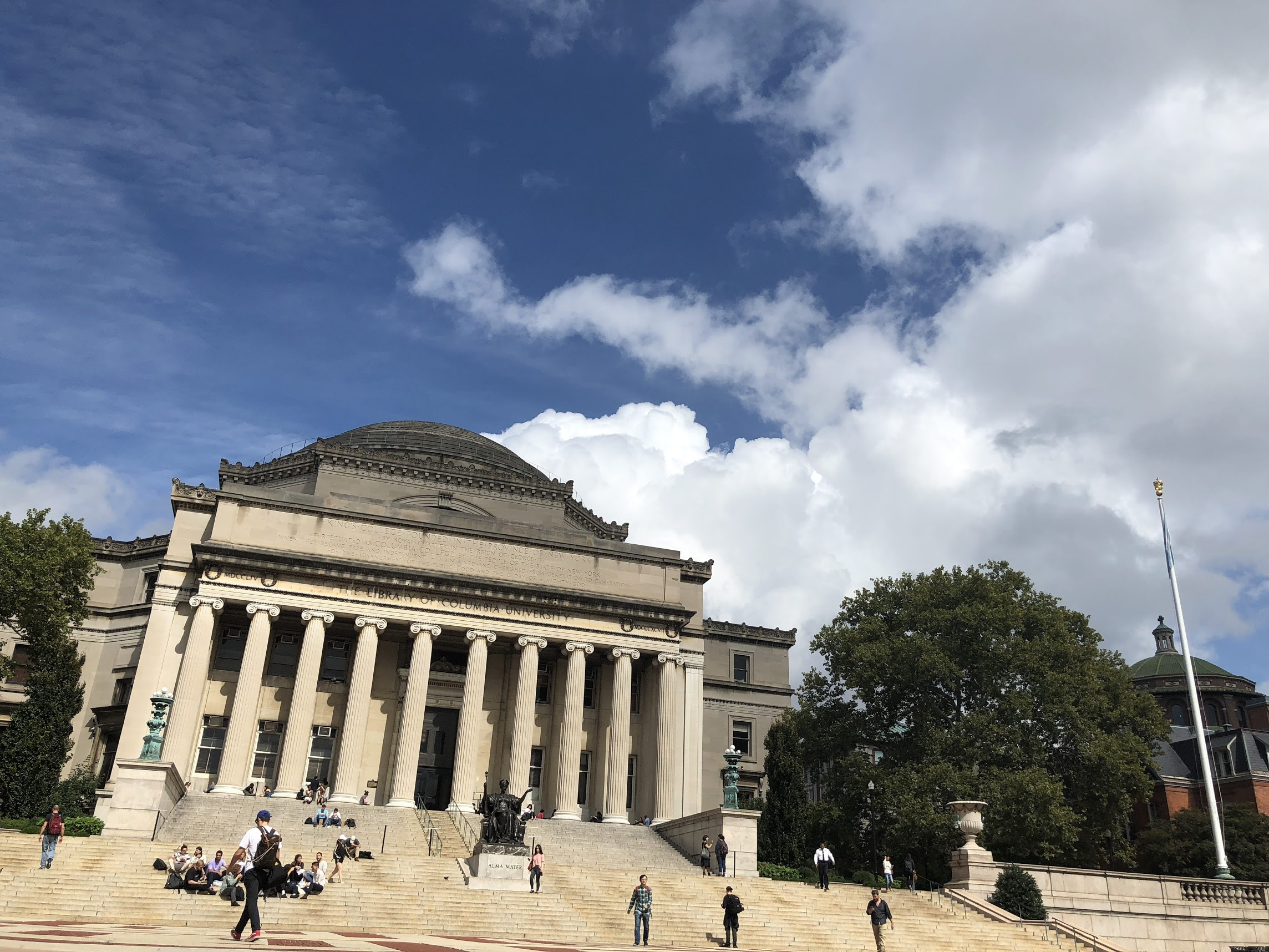 Low Library (Visitor center), Columbia University